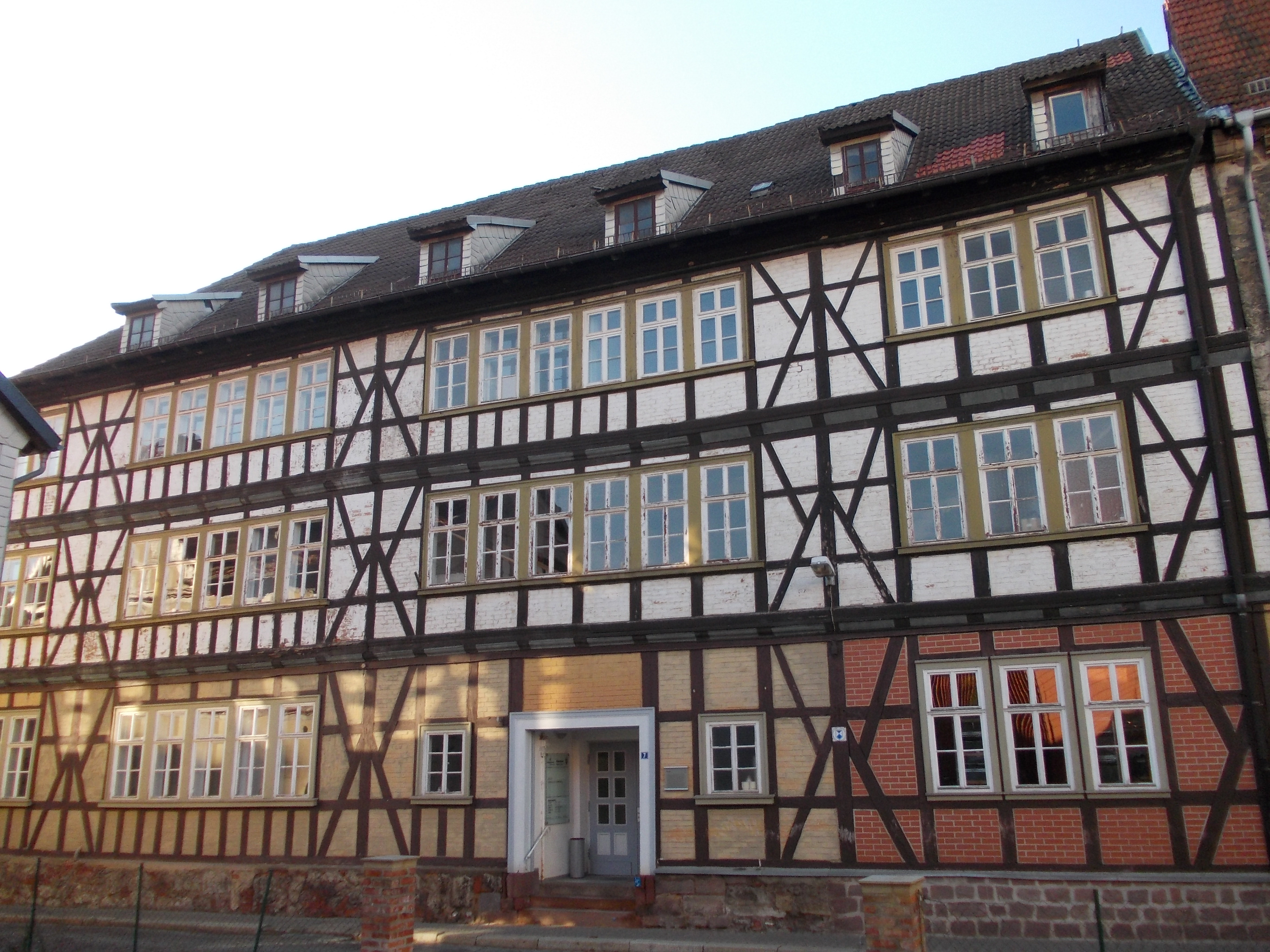 Former orphanage in Nordhausen (Thuringia)